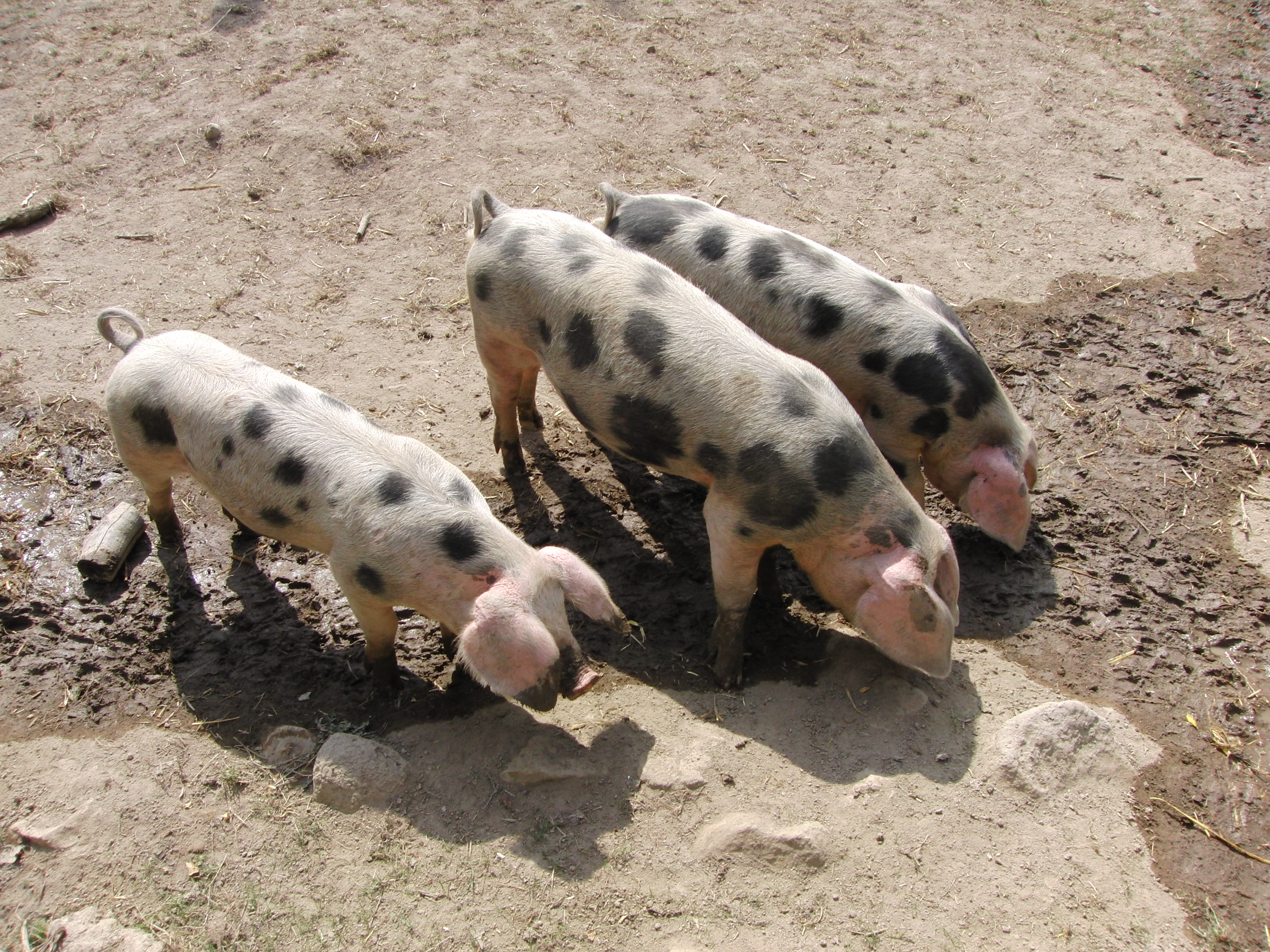 Bayeux pigs